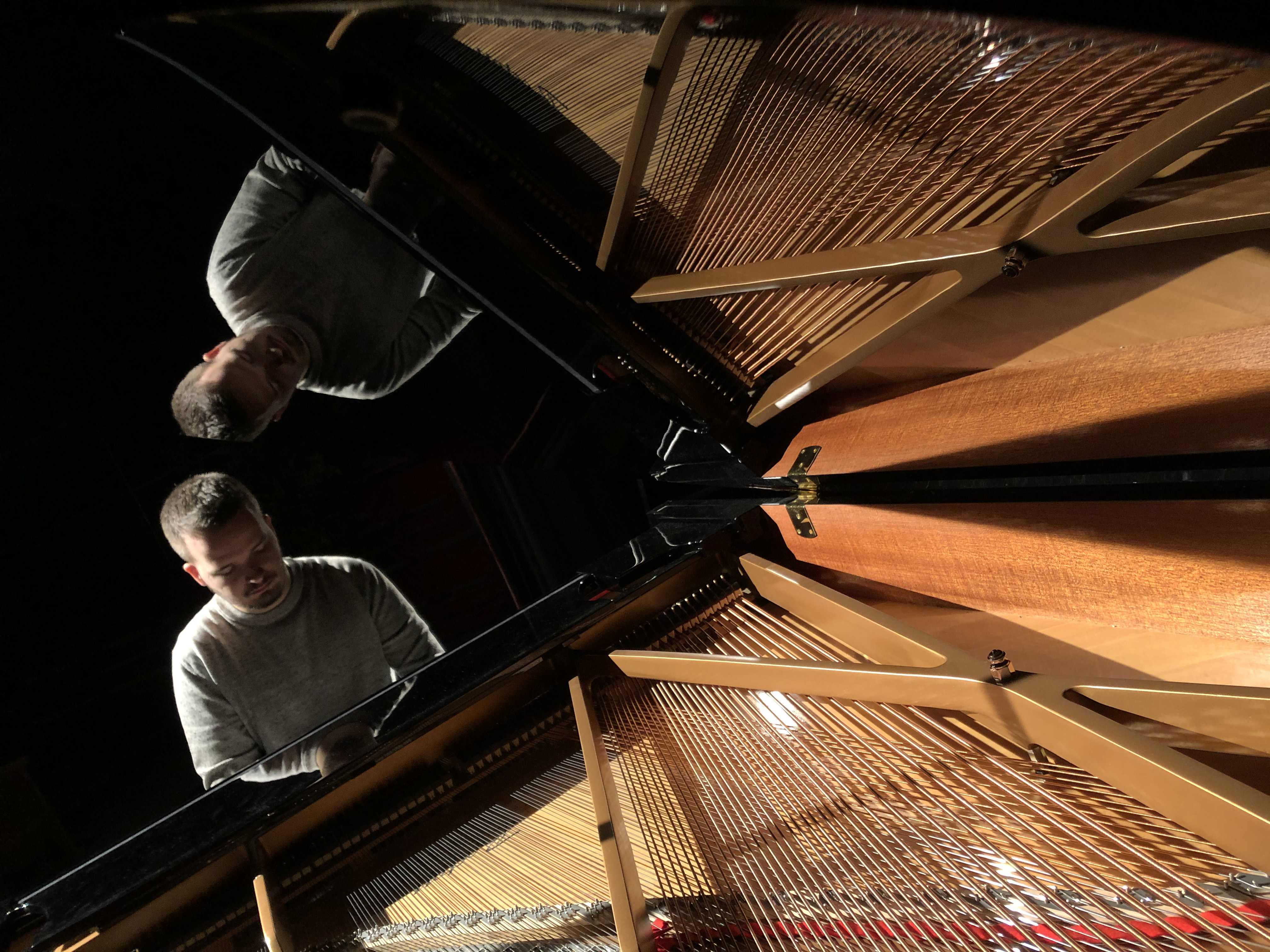 Czech composer Borrtex performing his new song thōughts live at ZUSLJ Music School.